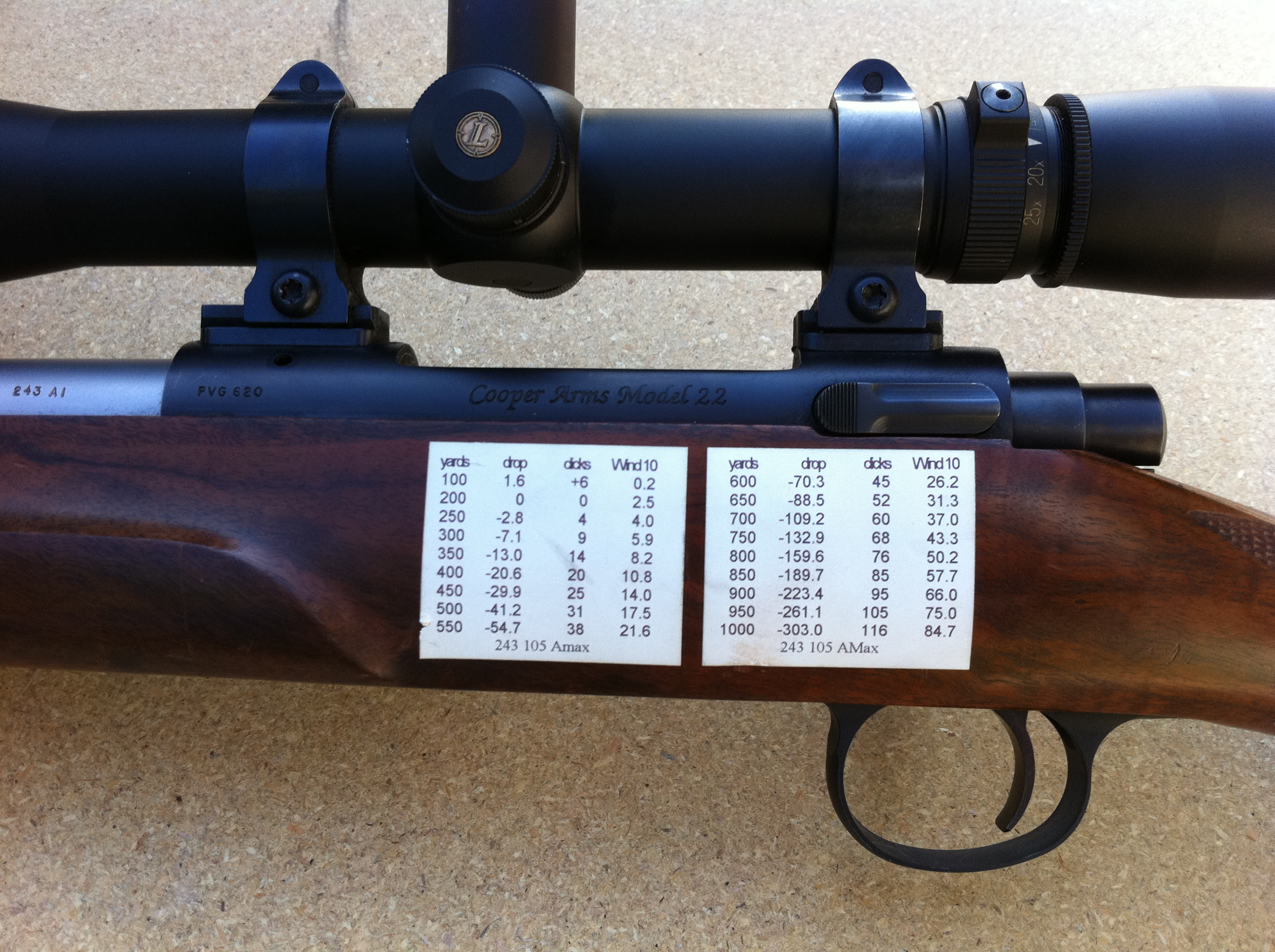 Dope sheet for calculating bullet drop and windage (wind drift) for .243 AI cartridge in Cooper Model 22 rifle